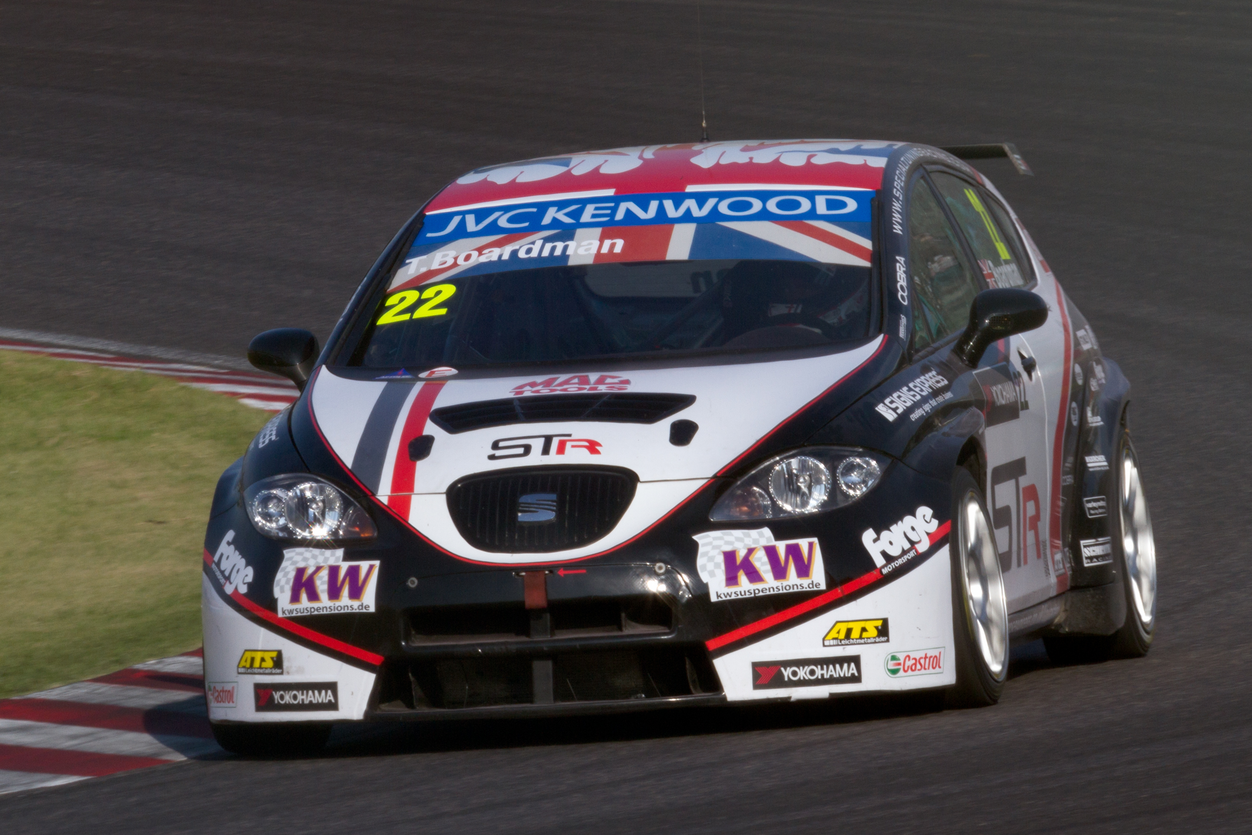 World Touring Car Championship 2013 Race of Japan: Tom Boardman (Special Tuning Racing)